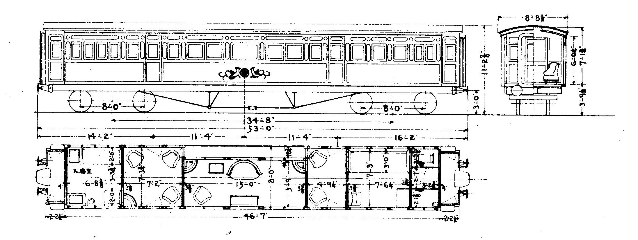 Type drawing of JGR's Imperial Car (Goryosha) No.3